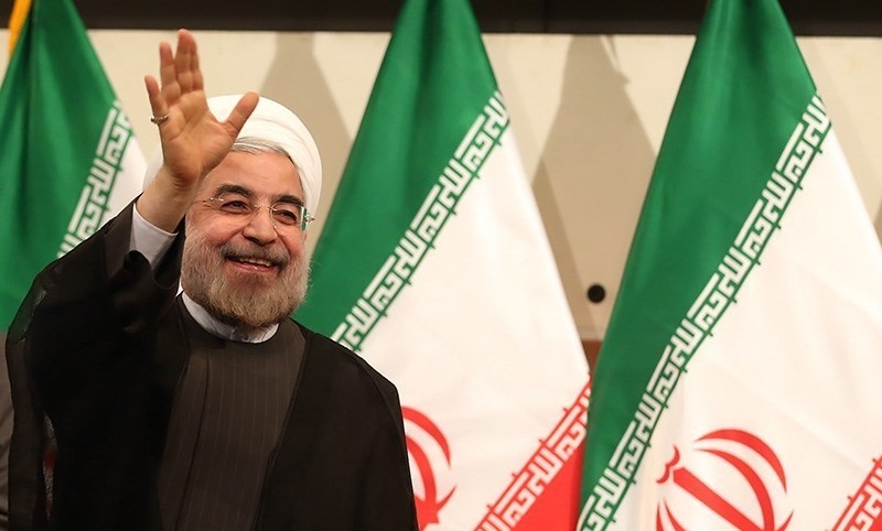 President-elect Hassan Rouhani press conference in Marble Hall